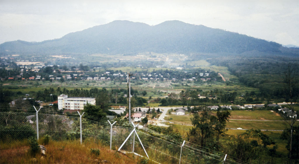 View of Gunung Lambak, near Kluang, Johor, Malaysia, from the west, looking across the southern suburbs of Kluang, 1975